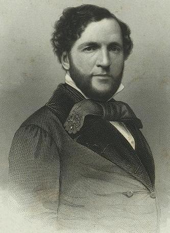 E. B. Hart, Congressman from New York